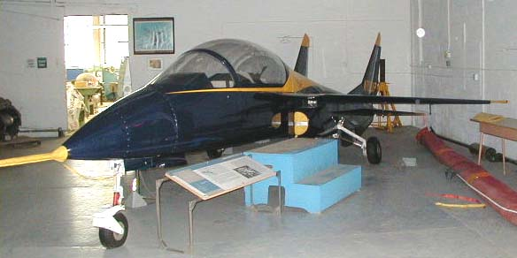 The original image appeared on: I contacted the author who gave me permission to use the photo as a public domain photographg. He sent back: I hereby assert that I am the creator and/or sole owner of the exclusive copyright of WORK I agree to publish that work under the free license PD-SELF. I acknowledge that I grant anyone the right to use the work in a commercial product, and to modify it according to their needs. I am aware that I always retain copyright of my work, and retain the right to be attributed in accordance with the license chosen. Modifications others make to the work will not be attributed to me. I am aware that the free license only concerns copyright, and I reserve the option to take action against anyone who uses this work in a libelous way, or in violation of personality rights, trademark restrictions, etc. I acknowledge that I cannot withdraw this agreement, and that the image may or may not be kept permanently on a Wikimedia project. July 6, 2007, Duncan N. Stone